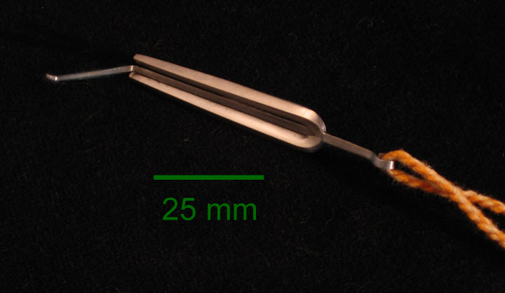 Demir xomus (metal xomus, or Jew's Harp) from Tuva Photo by Johanna Kovitz, Boston, MA. May 2007.